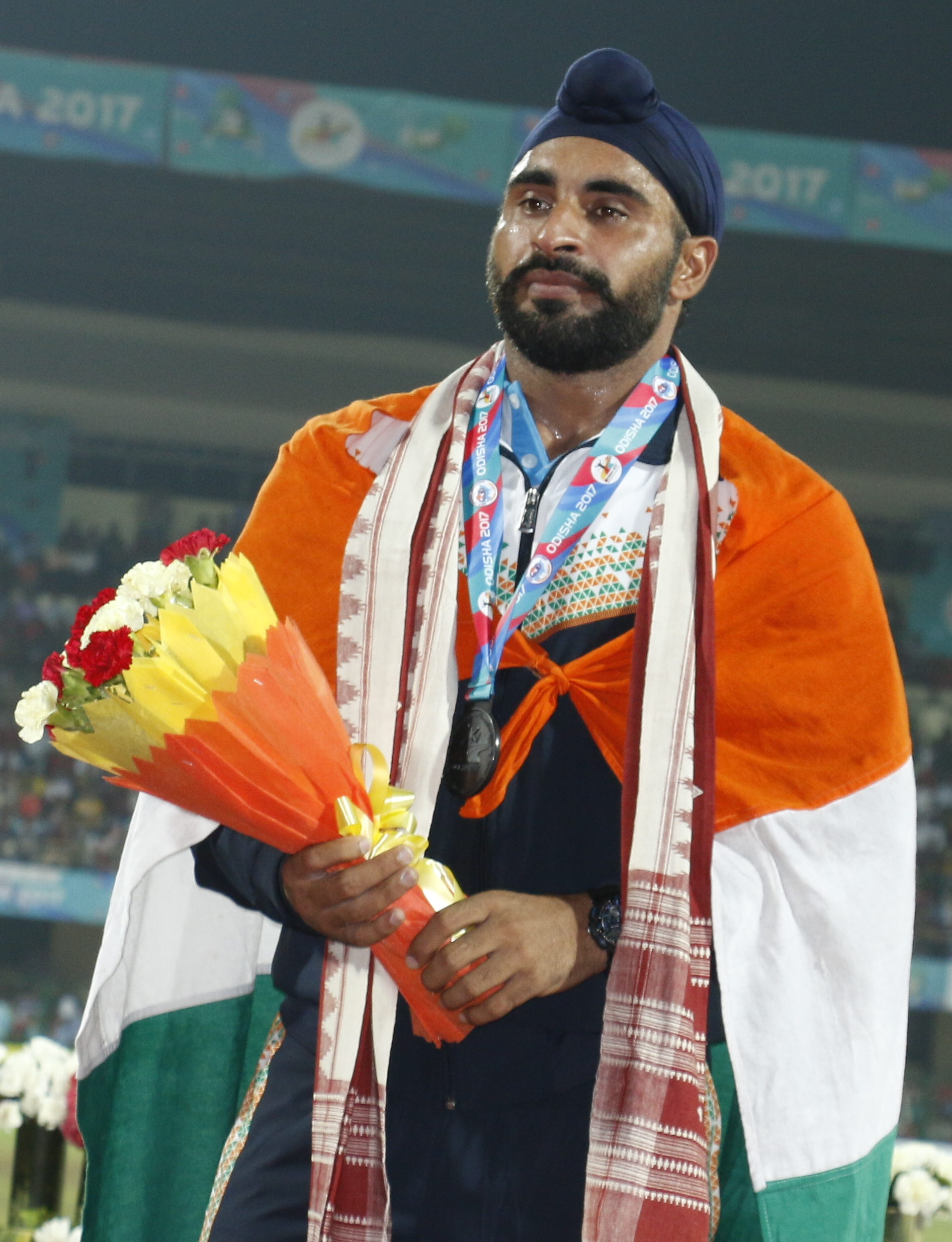 Athletes during 22nd Asian Athletics Championships in Bhubaneswar.